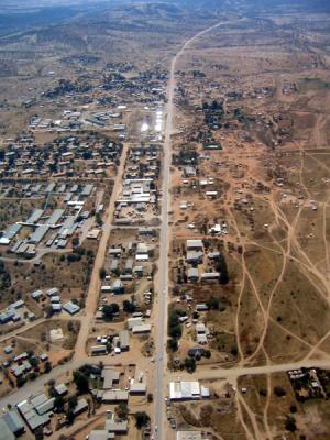 Close-up aerial photo of Opuwo, Namibia